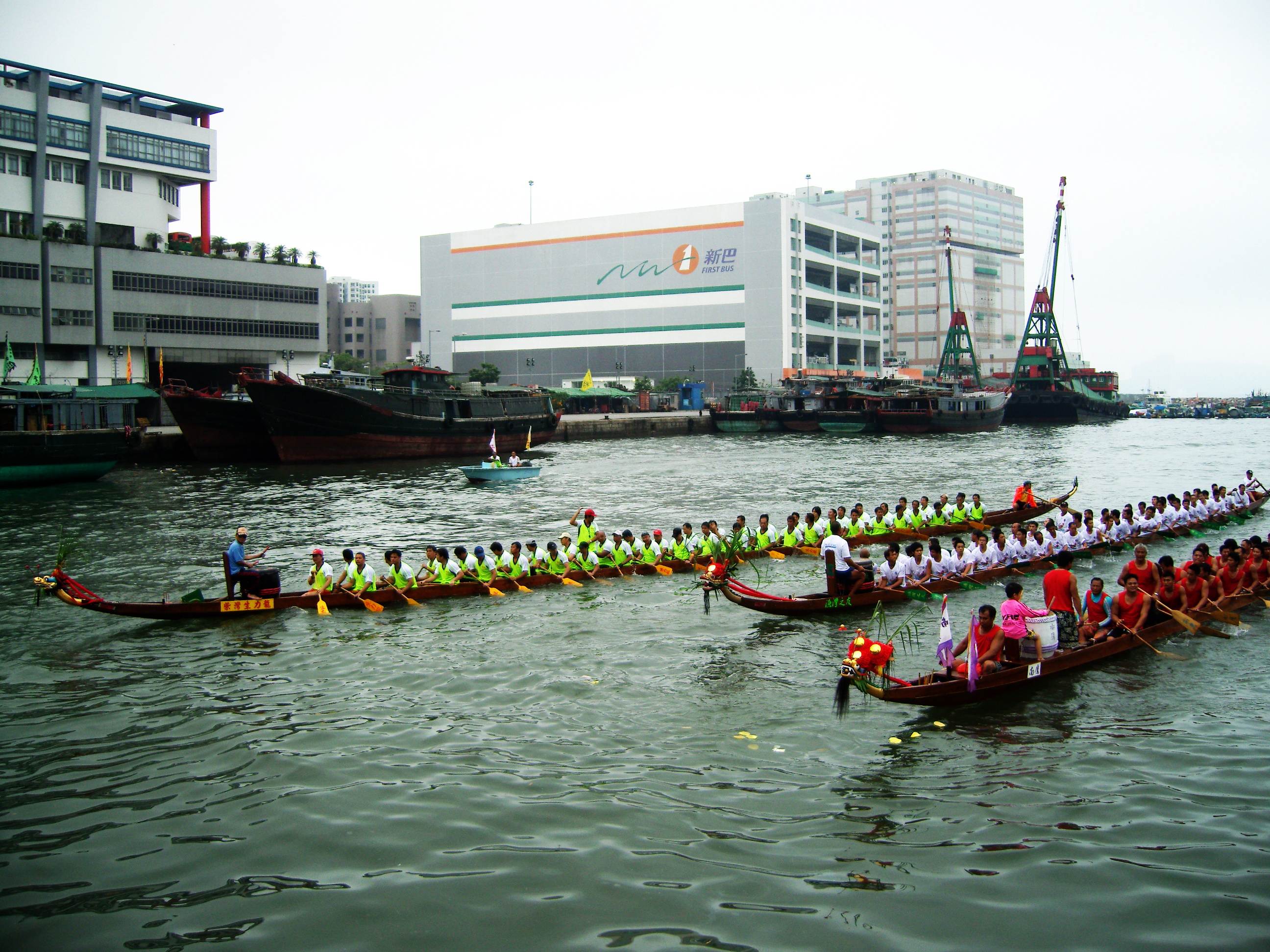 Eastern District Dragon Boat Race held in Wan Chai, Hong Kong.